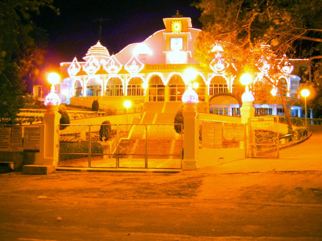 Om Shanti Bawan. A 2000-3000 seater hall at Madhuban, the headquarters of the Brahma Kumaris, Mount Abu, Rajesthan1, India.